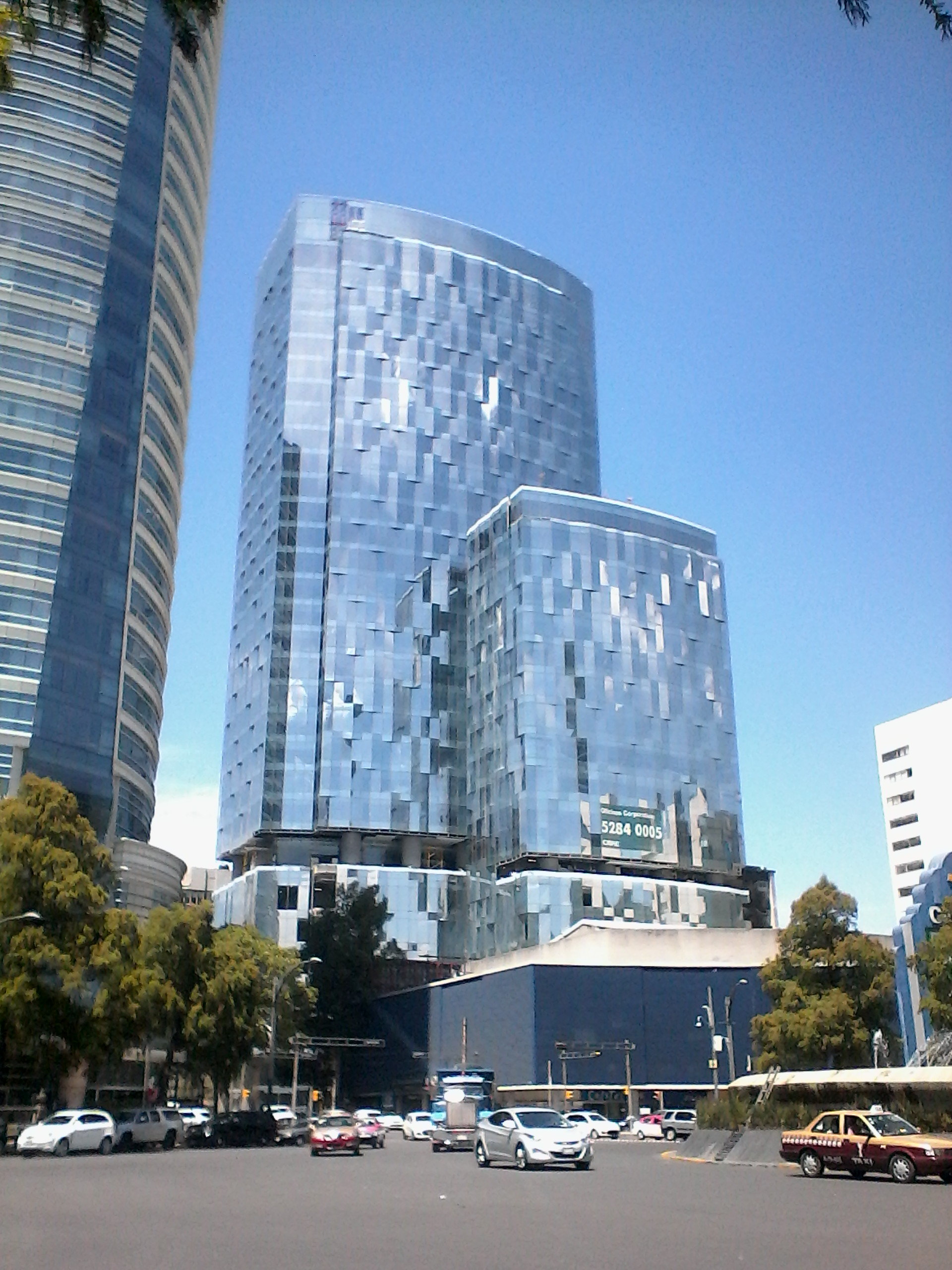 Torre Diana 2016